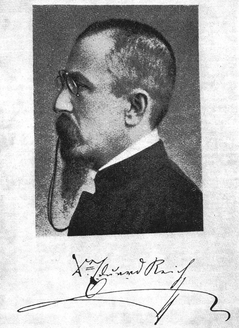 Eduard Reich and signature, from the preface of one of his books